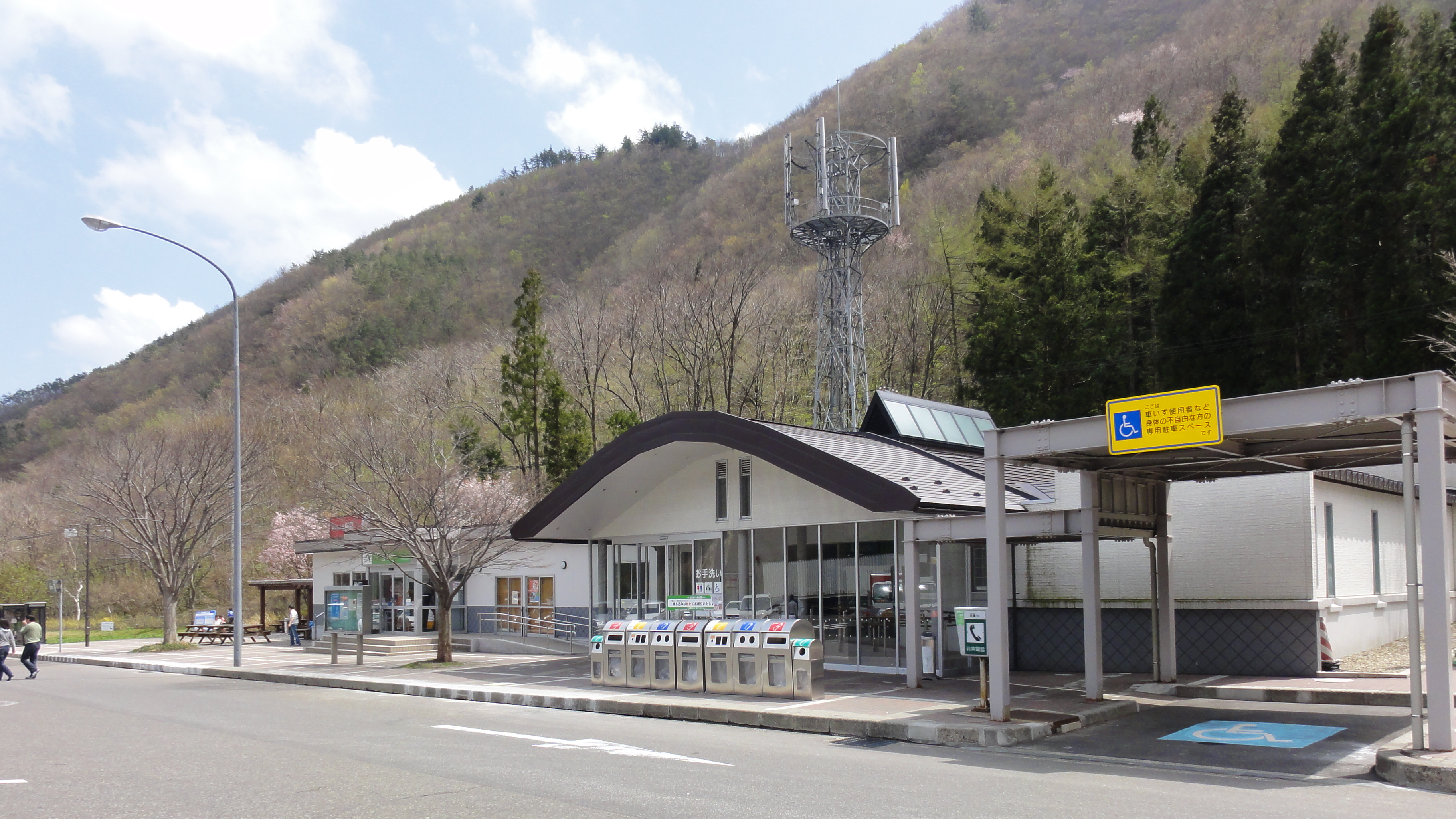 Furuseki Parking Area,Miyagi prefecture, Japan